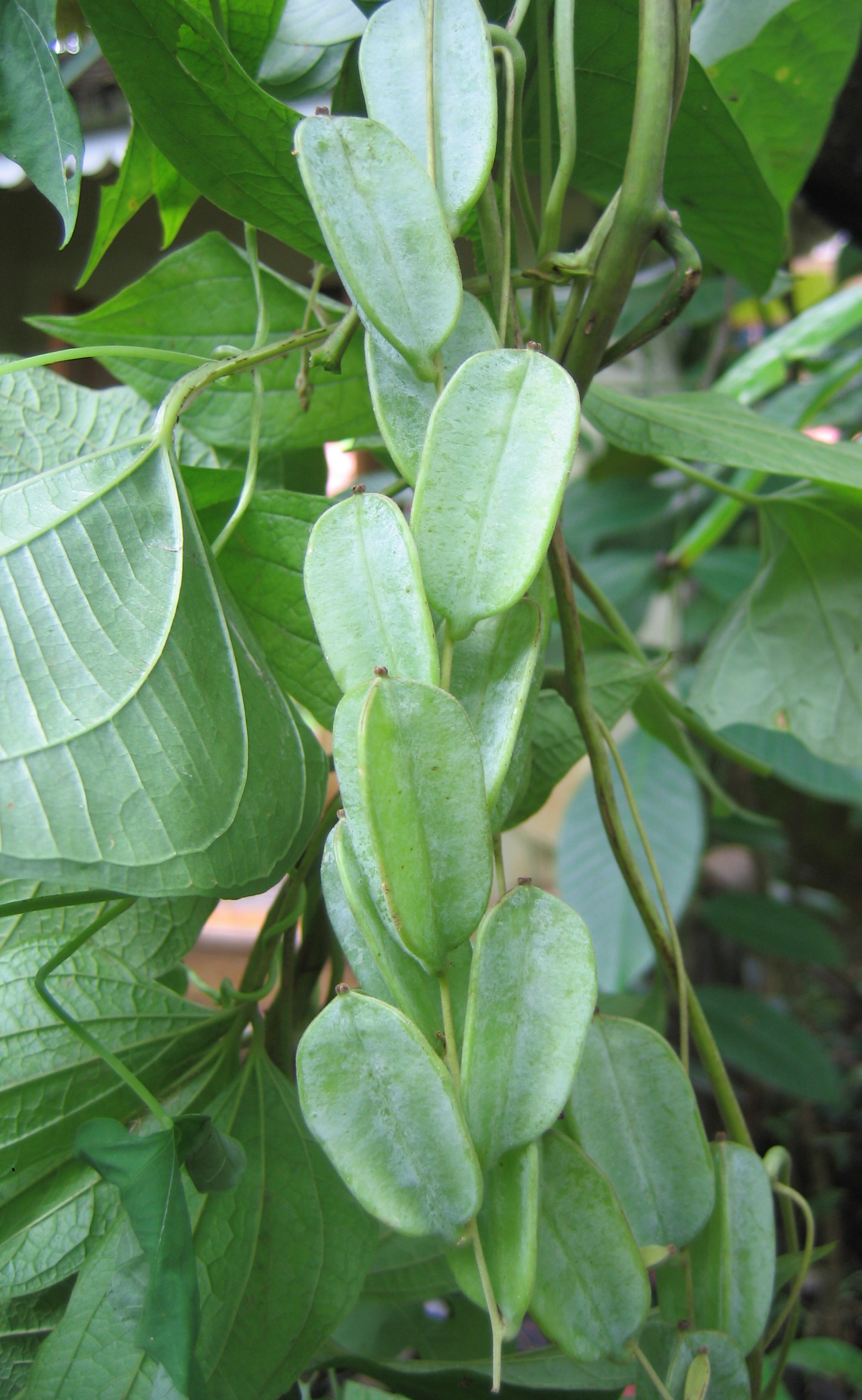 Dioscorea hispida